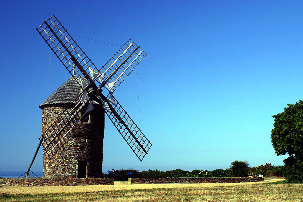 Moulin de craca is a windmill in Plouézec, Brittany, France.